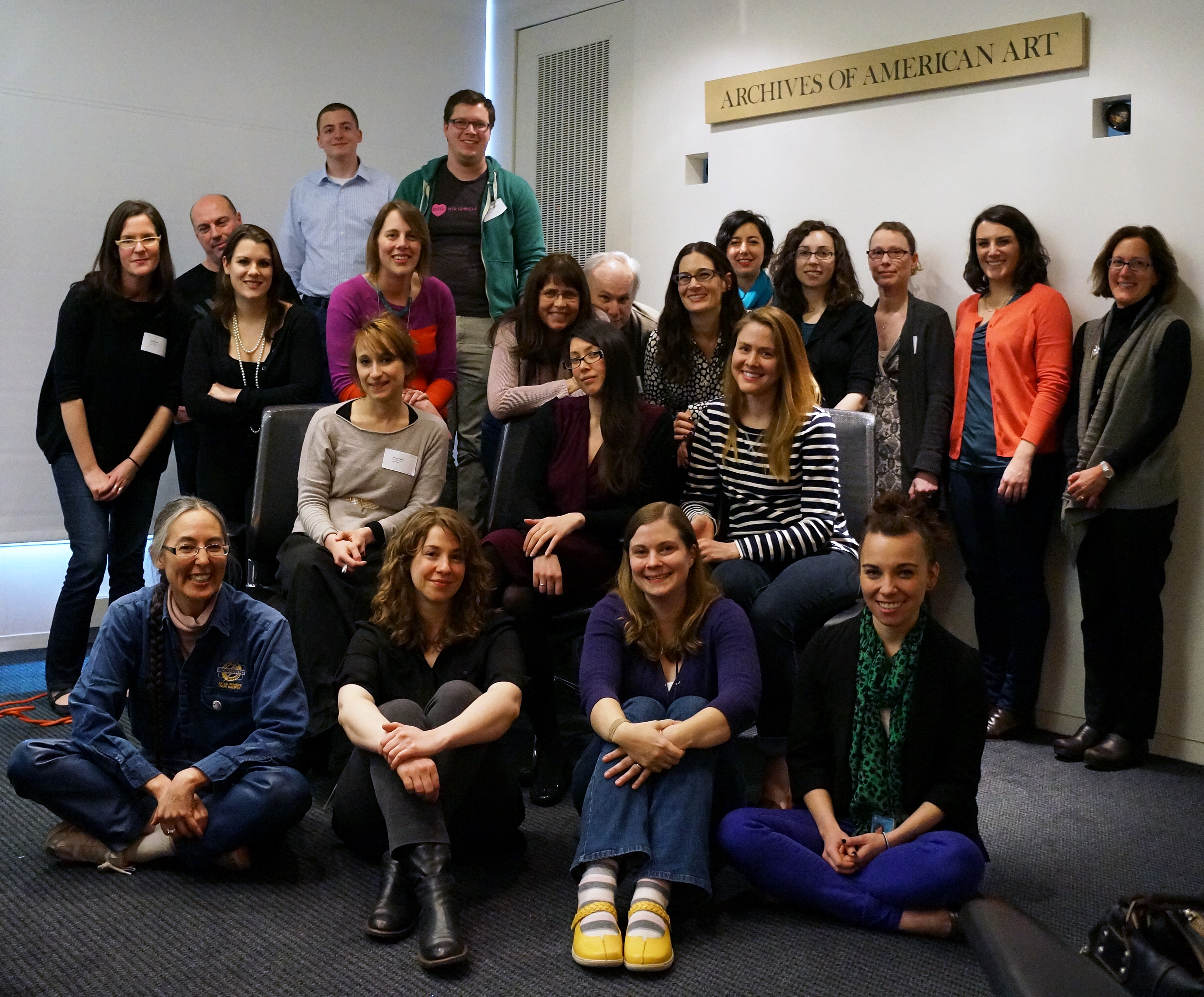 Gerald Shields photographed this group at the Archives of American Art Women in the Arts WikiMedia Edit-a-thon.